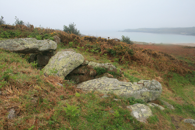 Obadiah's Barrow Sited on the west side of Kittern Hill, this is the only one of the neolithic burial chambers on Gugh to have a popular name; Obadiah Hicks a prominent islander in the 19th century is credited with its rediscovery. The chamber was excavated in 1901 and contained the remains of a contracted male skeleton and twelve cremation urns.